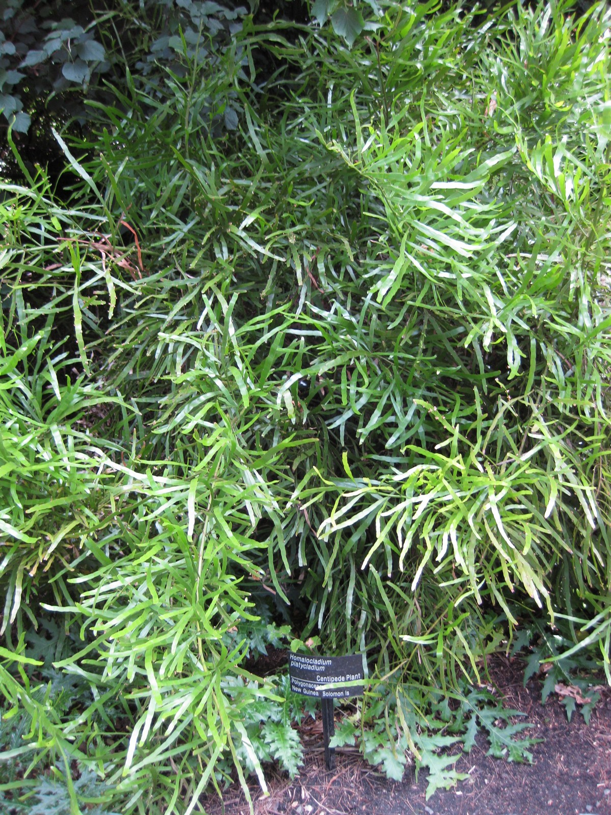 Photographed at the Royal Botanic Gardens Melbourne (Australia) in December